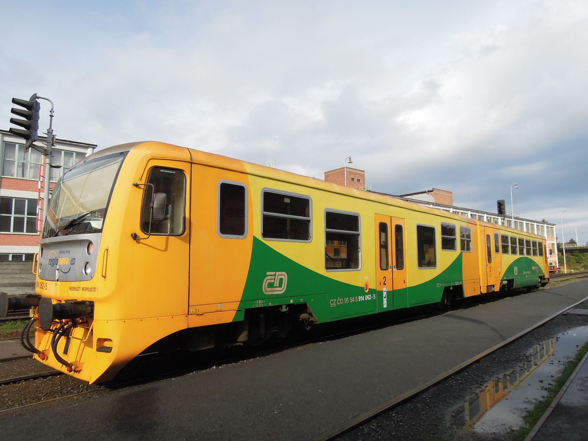 ČD Class 814 in Zlín střed railway station, Zlín, Zlín Region, Czech Republic